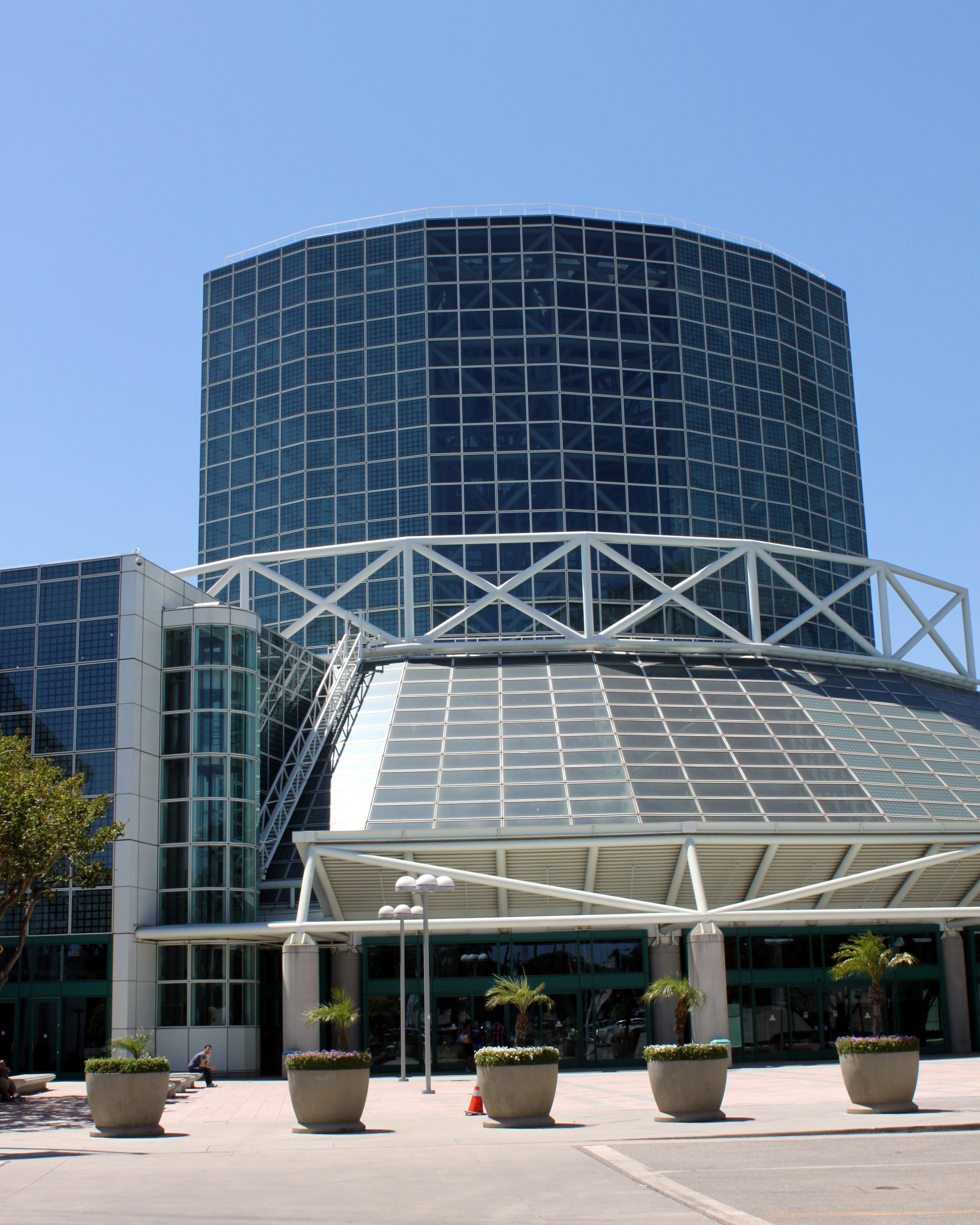 Down Town Los Angeles, California